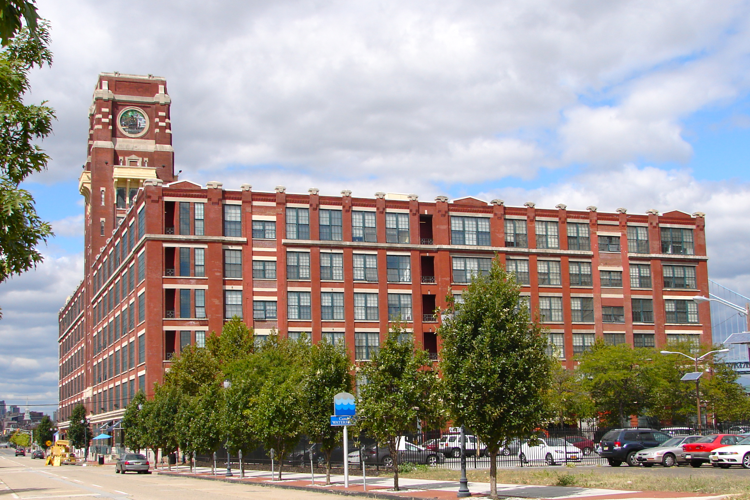 Building 17, RCA Victor Company, Camden Plant, aka "The Nipper Building," on the NRHP since October 4, 2002. At 1 Market Street, Camden, New Jersey. Used to produce RCA Victor Records and has the dog "Nipper" in a stained-glass window in the tower. It was converted to luxury apartments and retail space in 2004. 39°56′51″N 75°7′38″W Camden